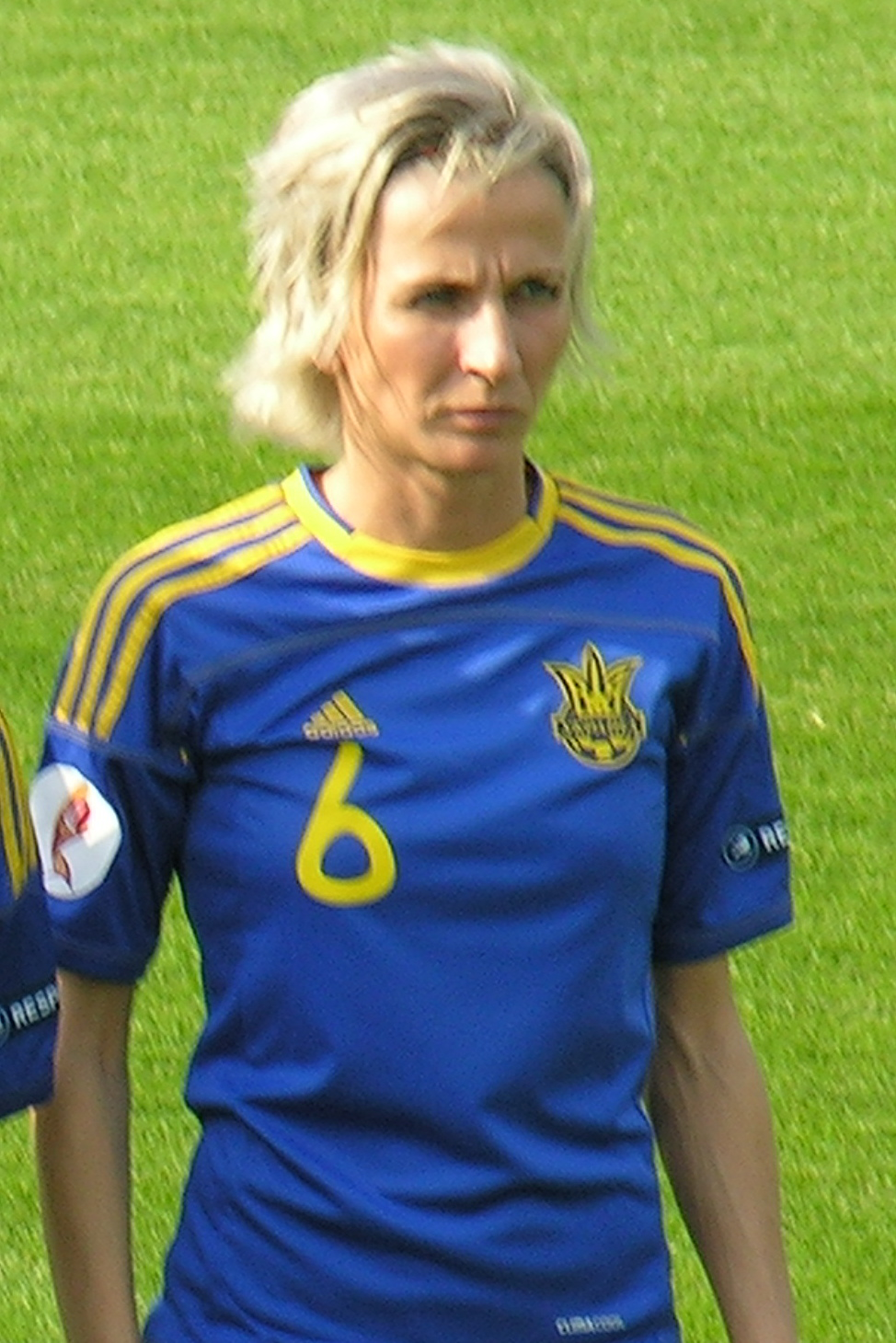 Lyudmyla Pekur Ukrainian international football player Event: Hungary-Ukraine 0-4 inTelki Hungary